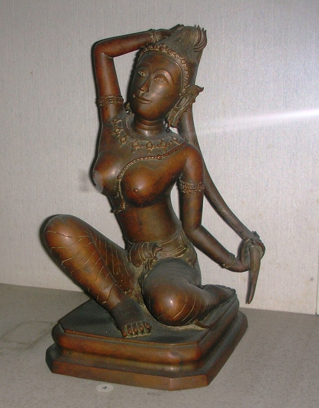 Phra Mae Thorani bronze statuette. Bangkok National Museum